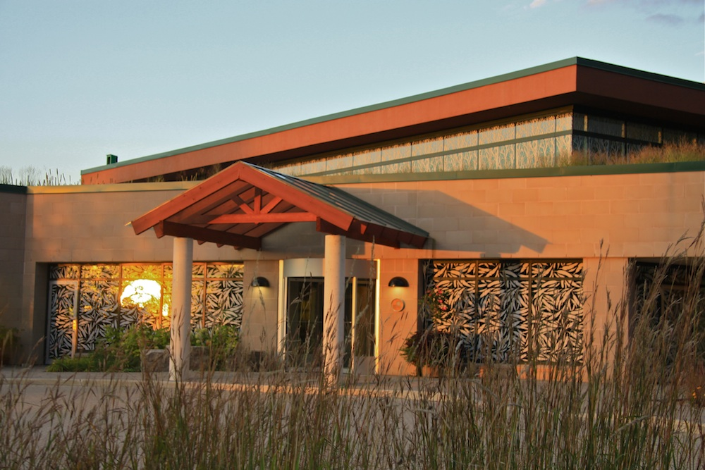 Earth Rangers Centre for Sustainable Technology